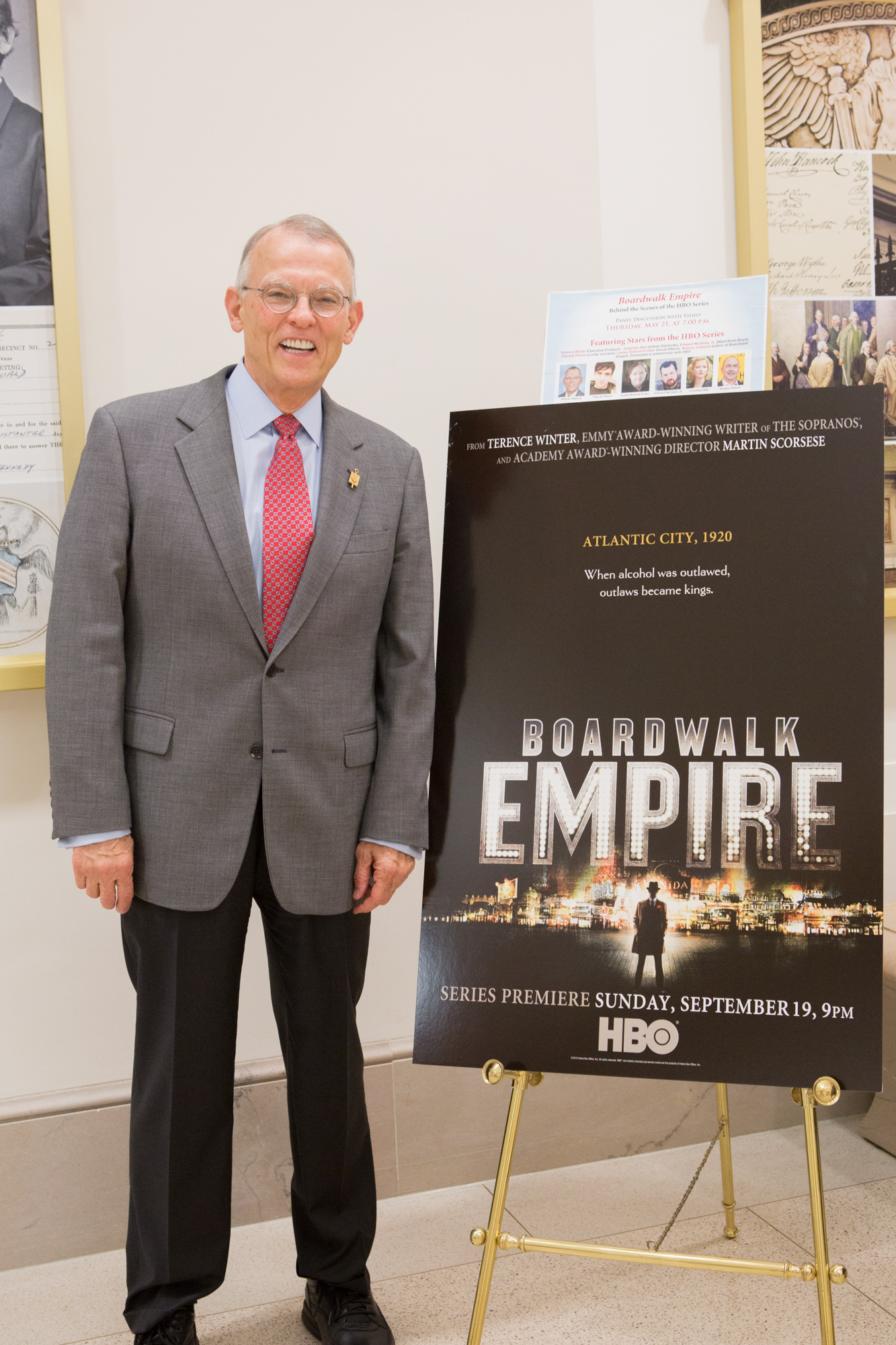 Boardwalk Empire; Nelson Johnson, author of Boardwalk Empire